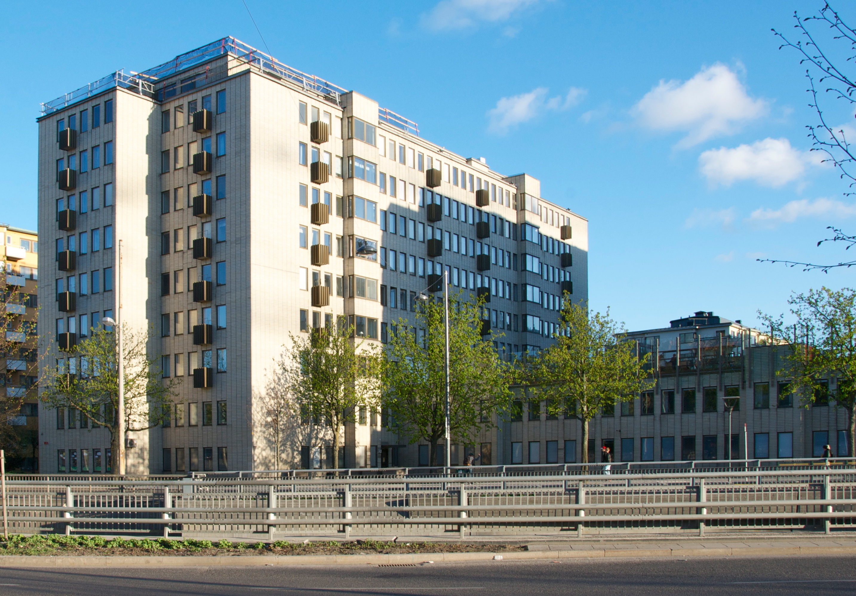 Drottningholmsvägen 37.